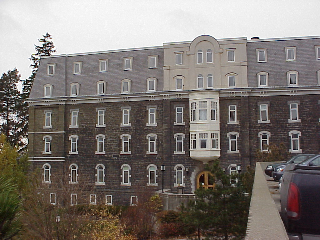 Picture of Cornell's Collegetown dorm, Cascadilla Hall